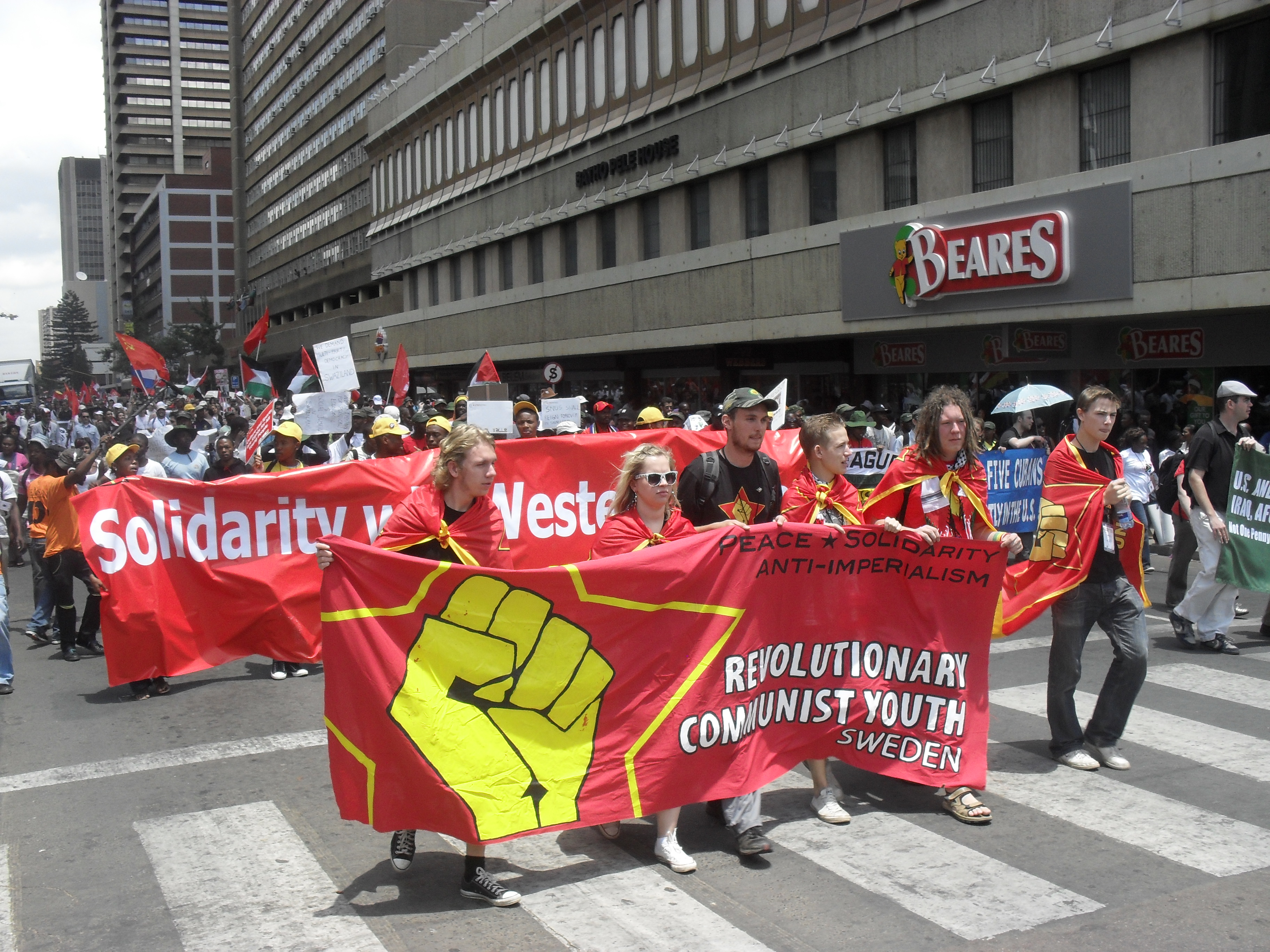 Parts of the Swedish delegation at the ending of the 17th World Festival of Youth and Students. Behind the Swedes is a banner with the text Solidarity with Western Sahara.